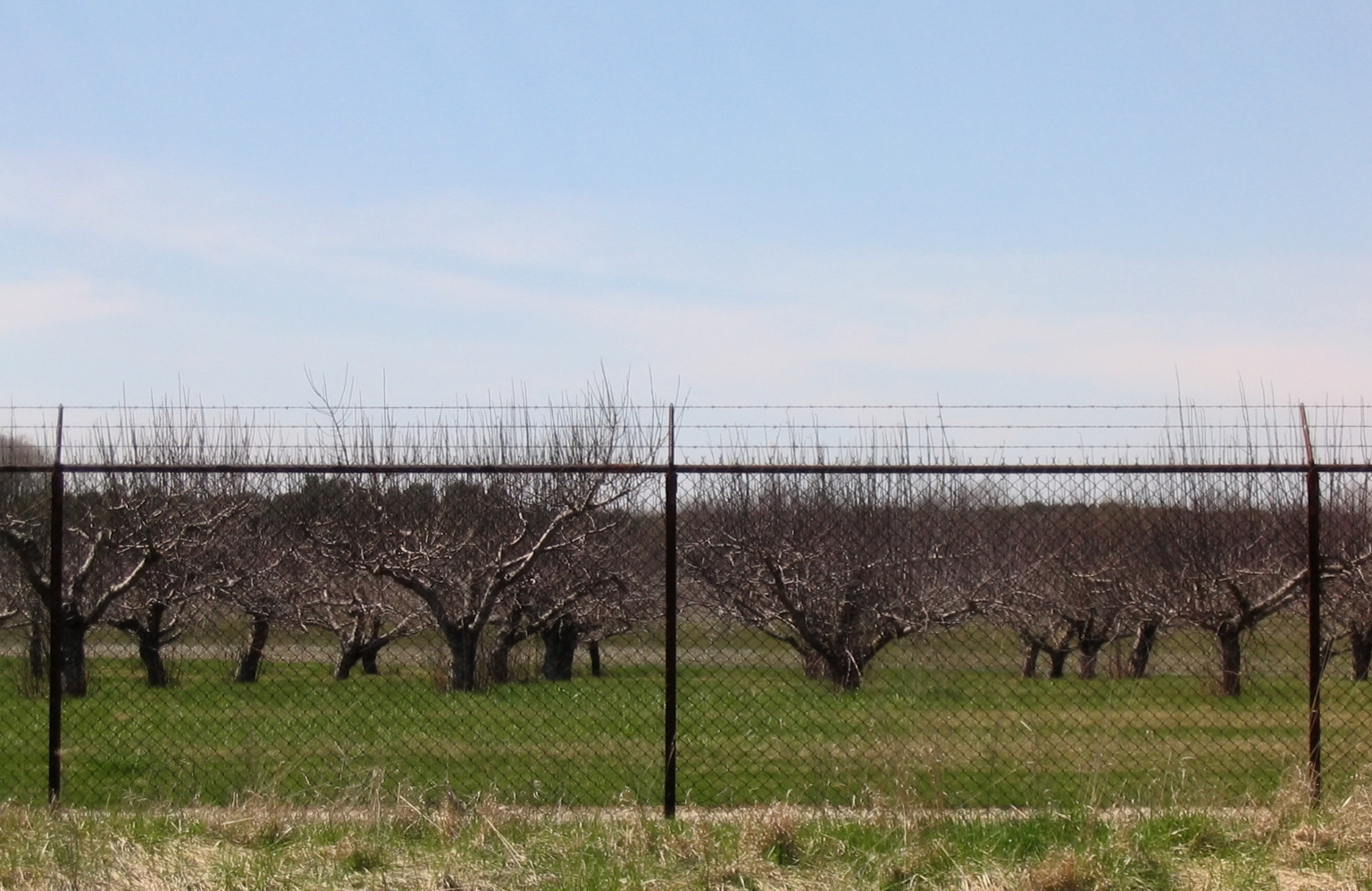 A fence, in Urbana, IL